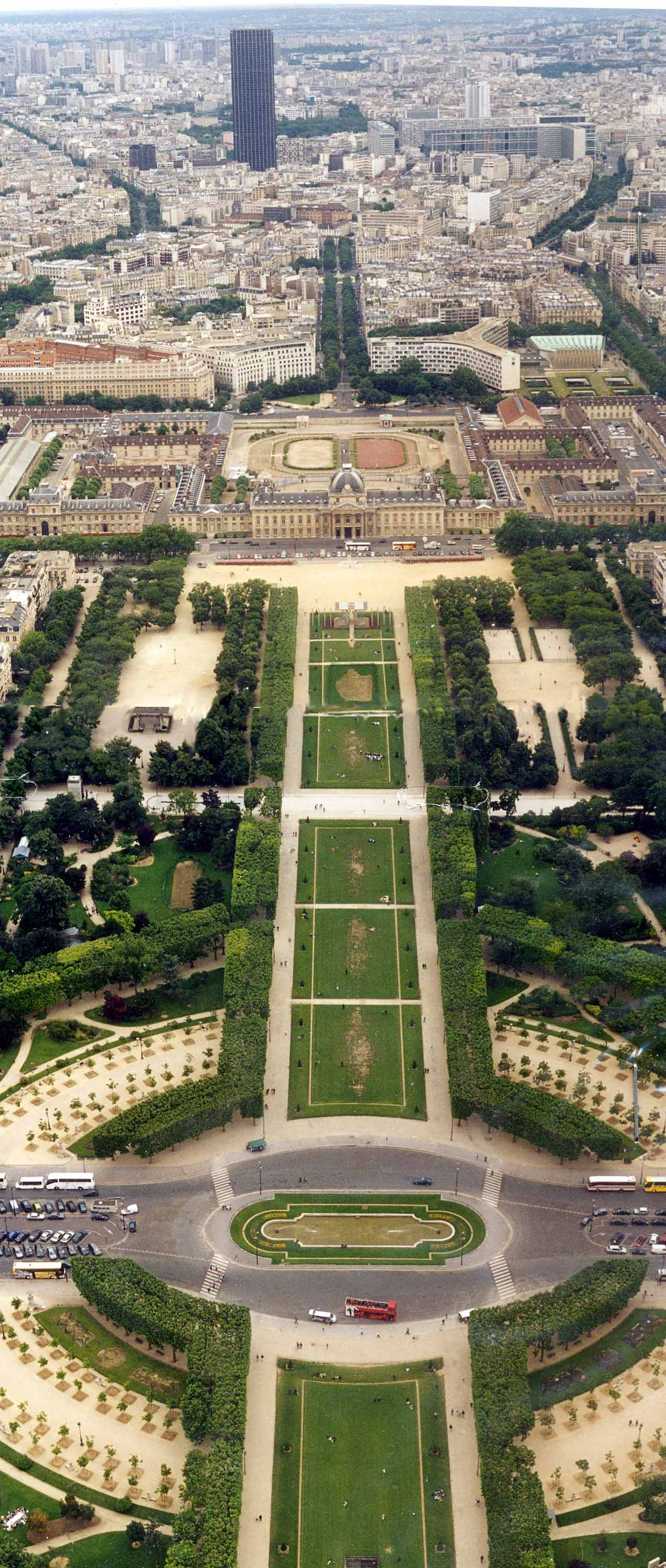 View to the southeast from the top of the Eiffel Tower, down the Champ de Mars, with the Tour Montparnasse (Montparnasse Tower) in the distance.